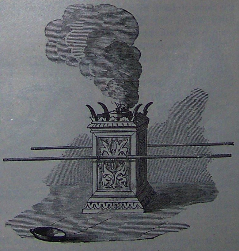 The Altar of Incense of the Biblical Tabernacle; illustration from the 1890 Holman Bible